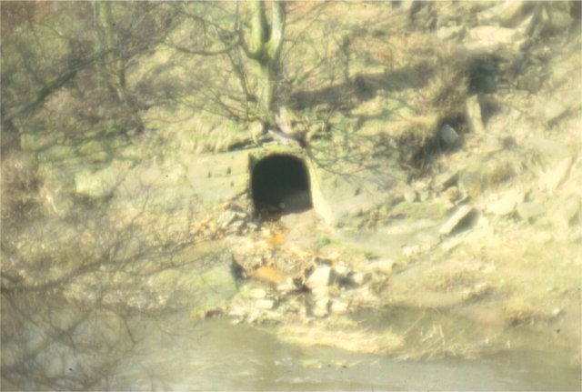 Syphon Adit on bank of River Irwell, taken 1980 by Geotek